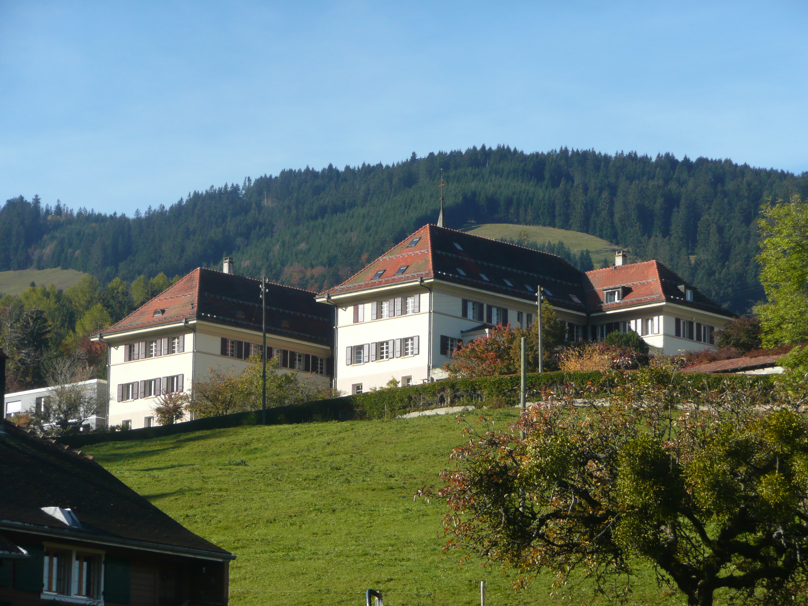 Le Pâquier-Montbarry (Le Pâquier (Fribourg)) (autumn)